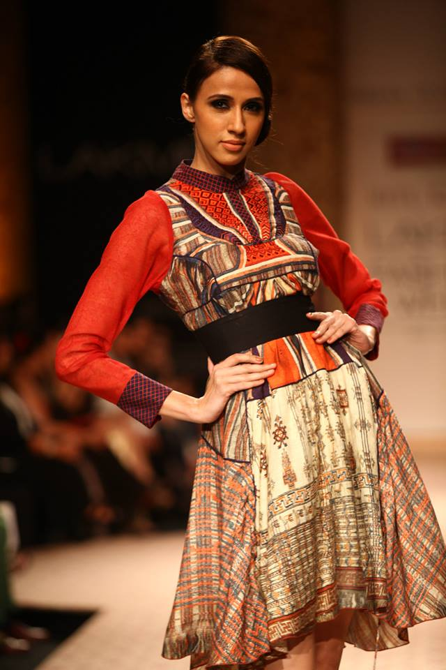 Alesia Raut in Ritu Kumar's ensemble at Lakme Fashion Week at Grand Hyatt Mumbai, by SouBoyy, Sourendra Kumar Das.